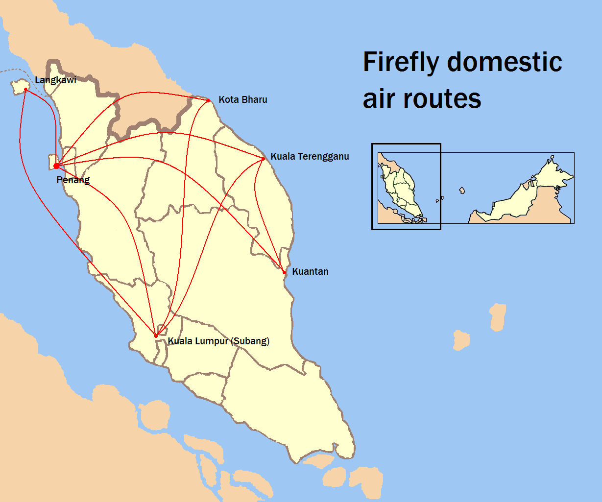 Firefly domestic air routes